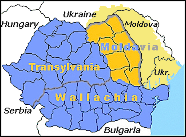 Actual situation of the Moldavian principality territory: dark yellow the western romanian part, light yellow the eastern former soviet part